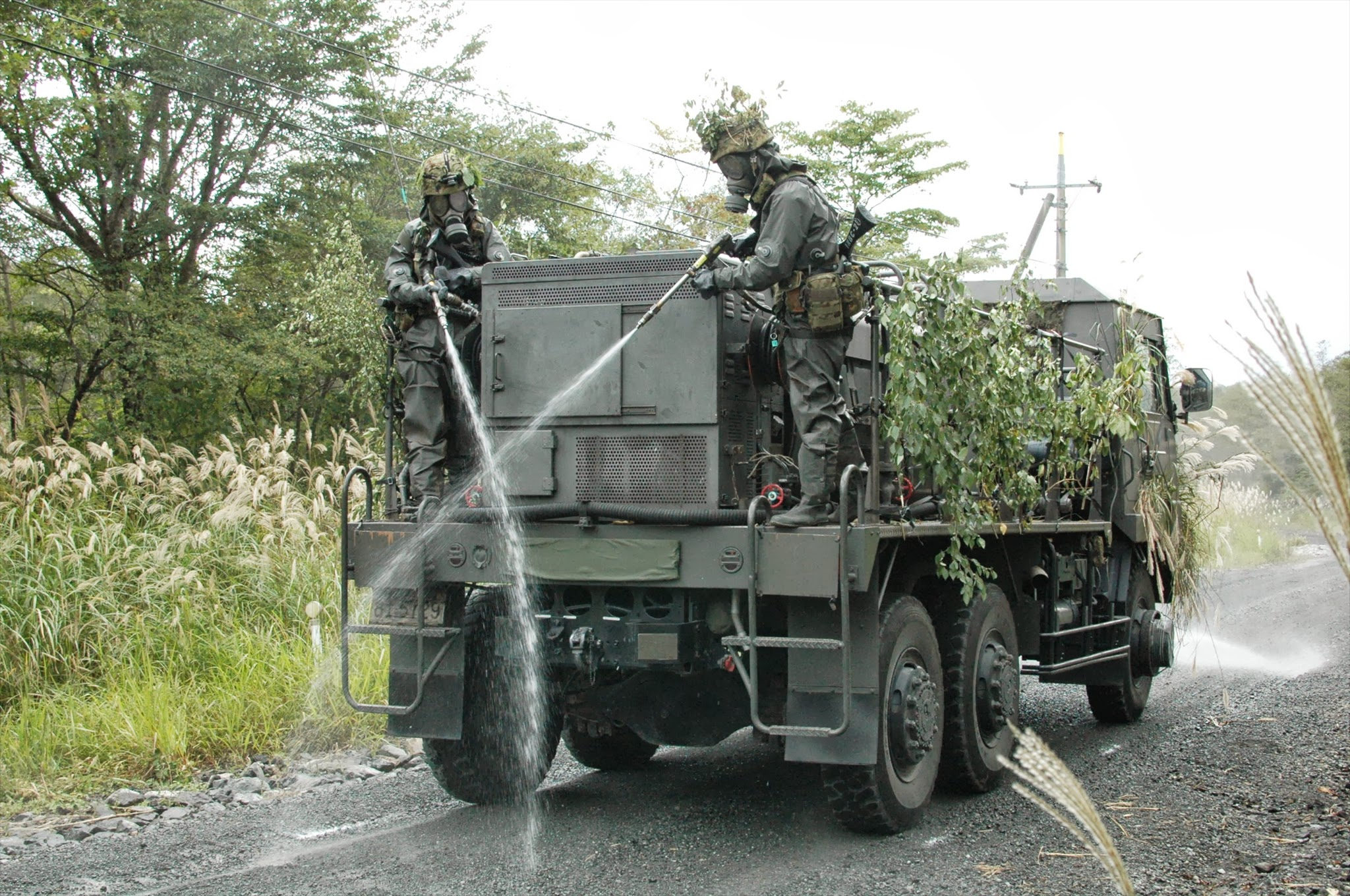 Title 除染車３形（Ｂ）24.09.30～10.05 １Ｄ・＃２師団訓練検閲 除染 １特防第6特殊武器防護隊.JPG Album 装備 除染車３形（Ｂ）（師団訓練検閲・第１特殊武器防護隊）